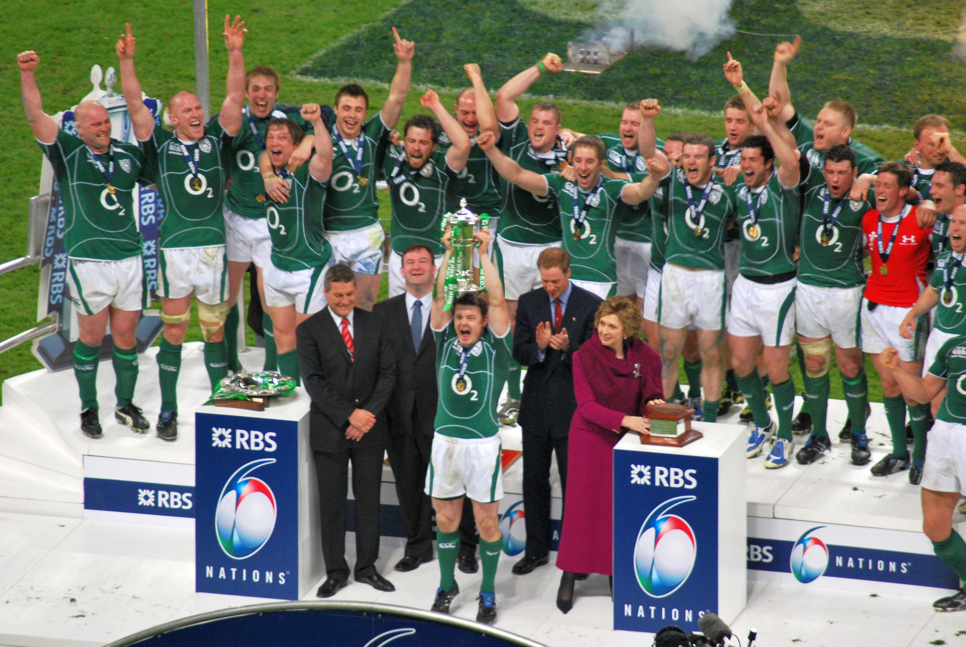 Ireland winning the 2009 Six Nations Championship, Millennium Stadium, Cardiff, Wales.